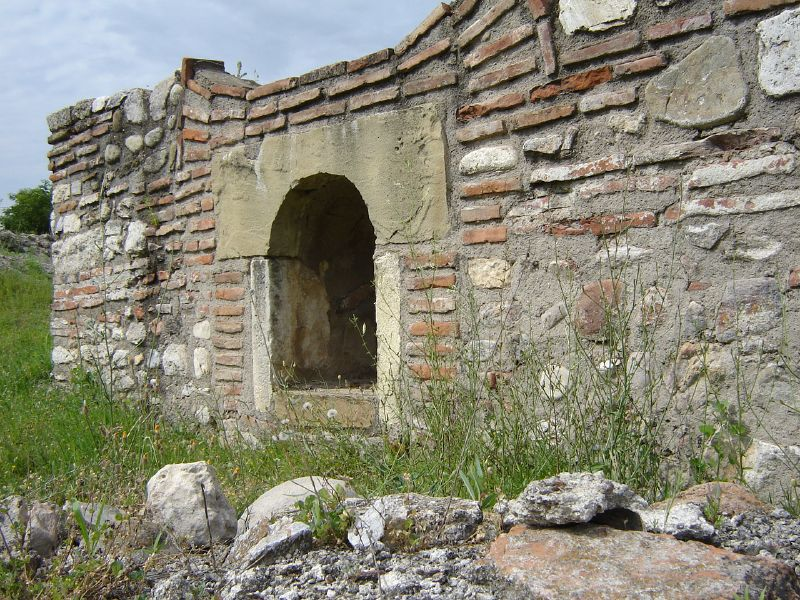 Scupi, archaeological site located between Zajčev Rid (Rabbit hill) and the Vardar River, several kilometers from the center of Skopje, in Macedonia